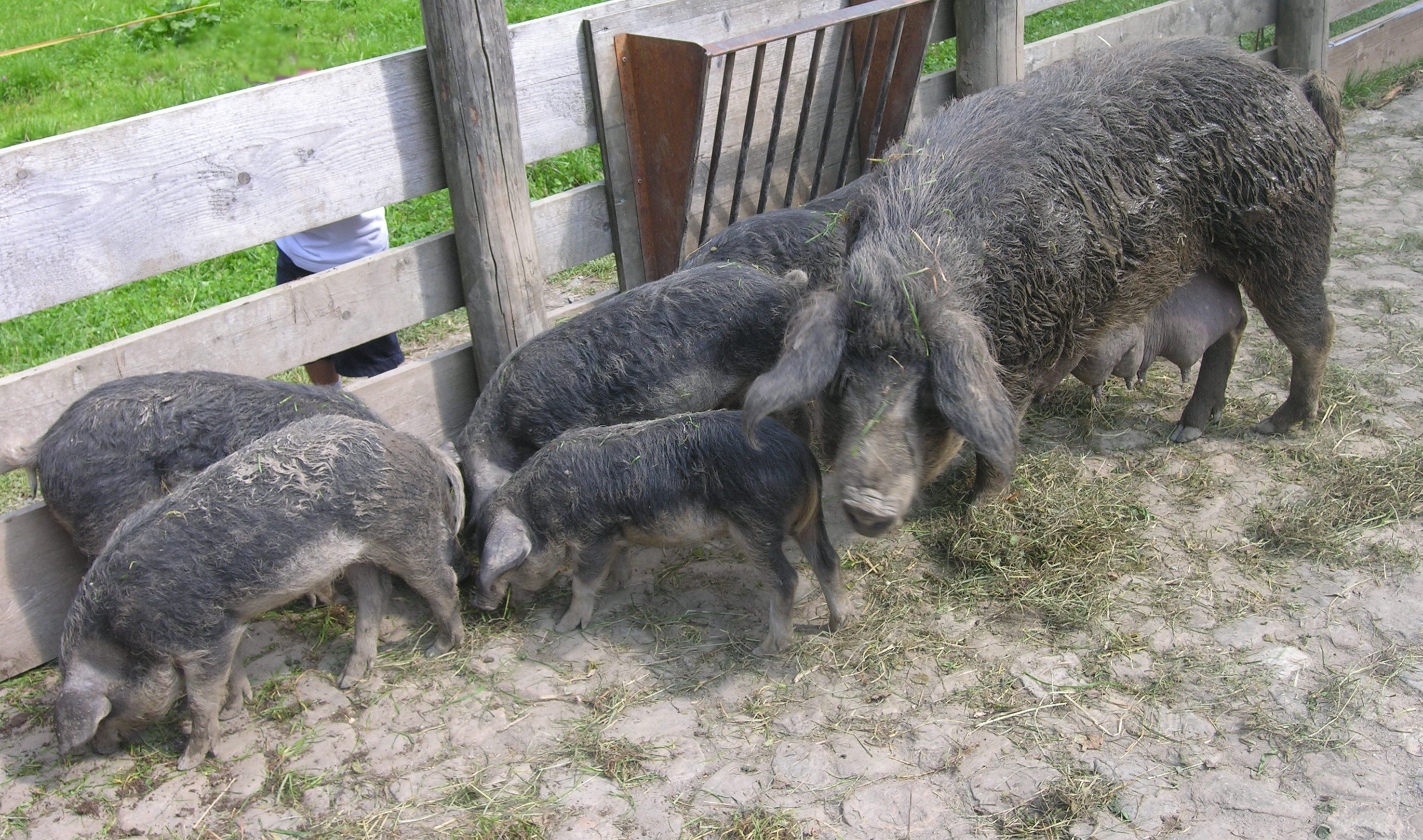 Woolly coated grazing pig (practially extinct today)